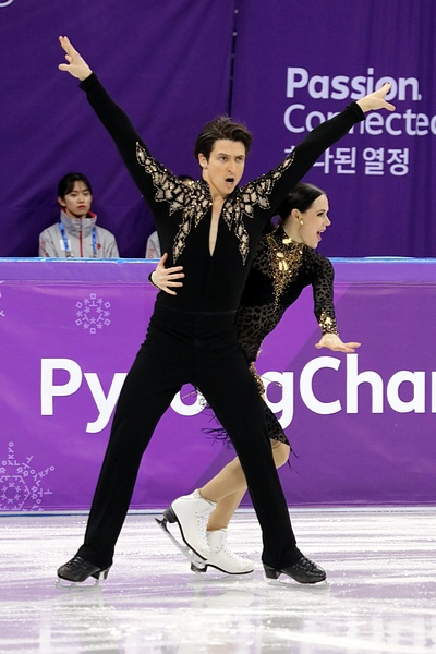 Tessa Virtue and Scott Moir at the 2018 Winter Olympic Games in PyeongChang